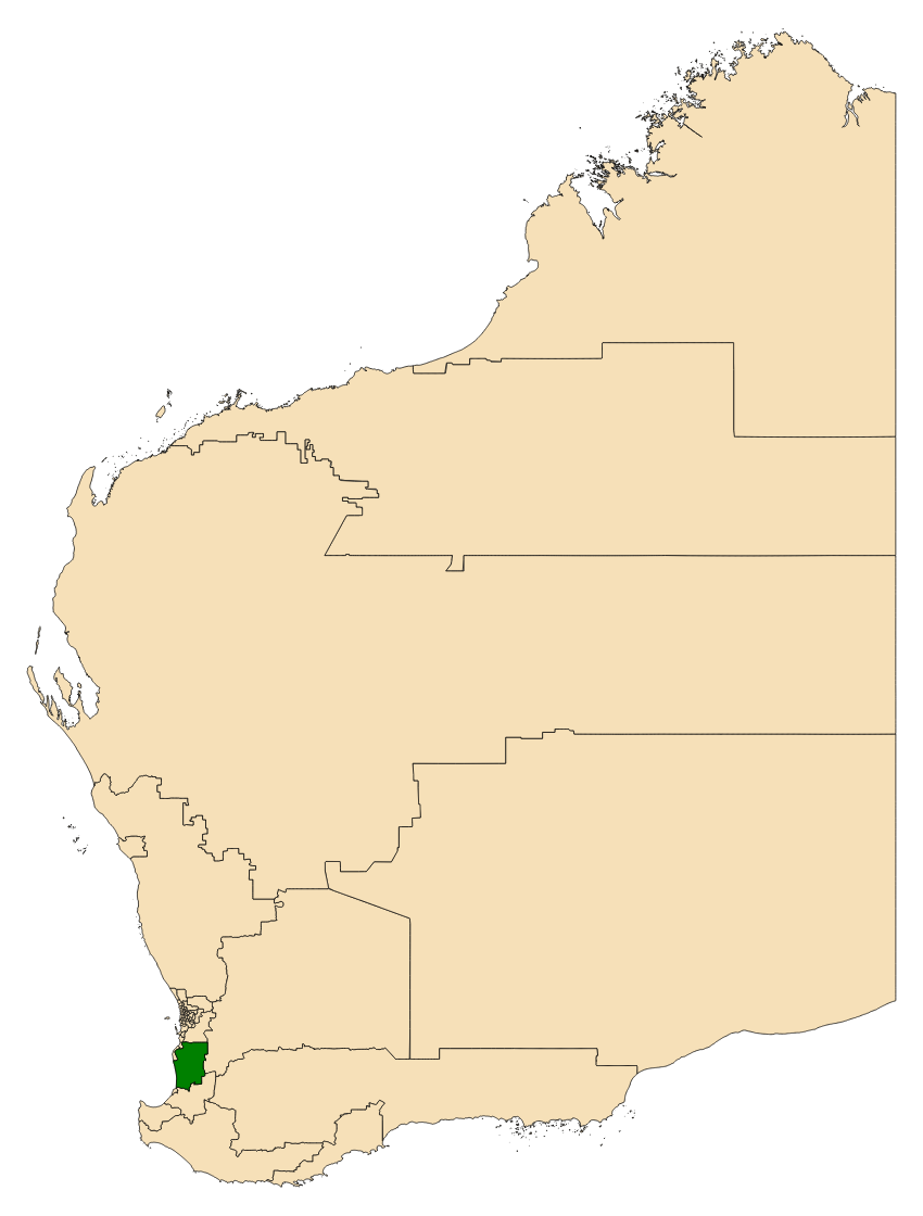 Location of the electoral district of Murray-Wellington in Western Australia as of the 2017 WA state election.